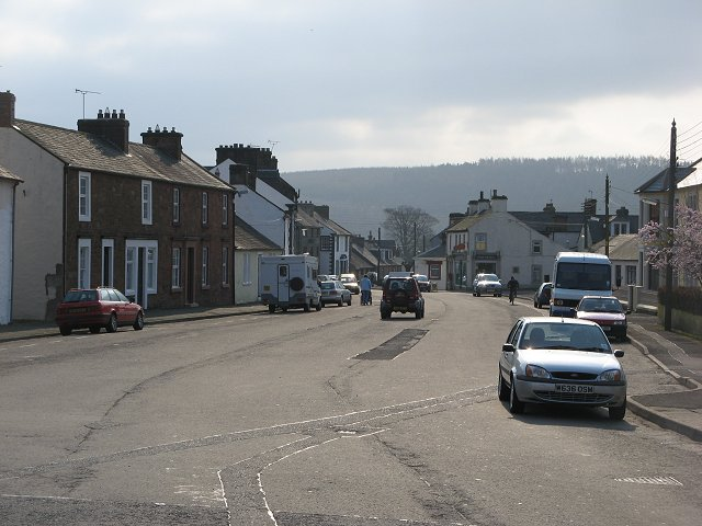 Ecclefechan A Carlyle free view of Ecclefechan, yet another suspiciously Welsh place name in Dumfriesshire. Where the wee kirk was, I don't know.